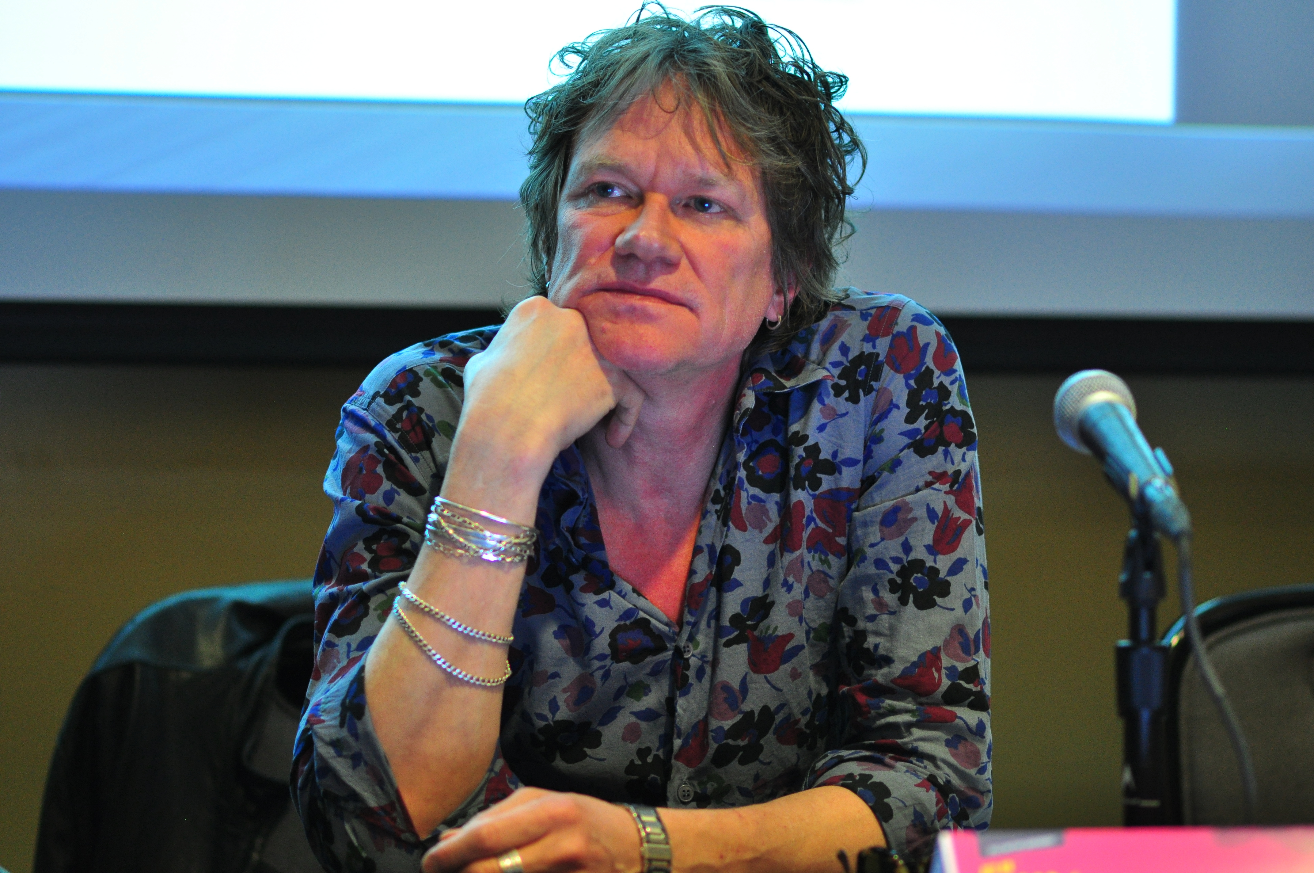 Eric Lott on the panel "The Imp of Tradition in 1970s Pop", Saturday, April 18, 2015, Pop Conference 2015. Learning Labs, EMP Museum, Seattle, Washington.